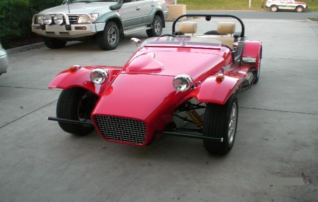 Alpha Sports (ASP) 320 G model constructed in 2007. Running a Toyota 4AGE 20 Valve 1.6 L twin cam engine. Constructed from a kit.